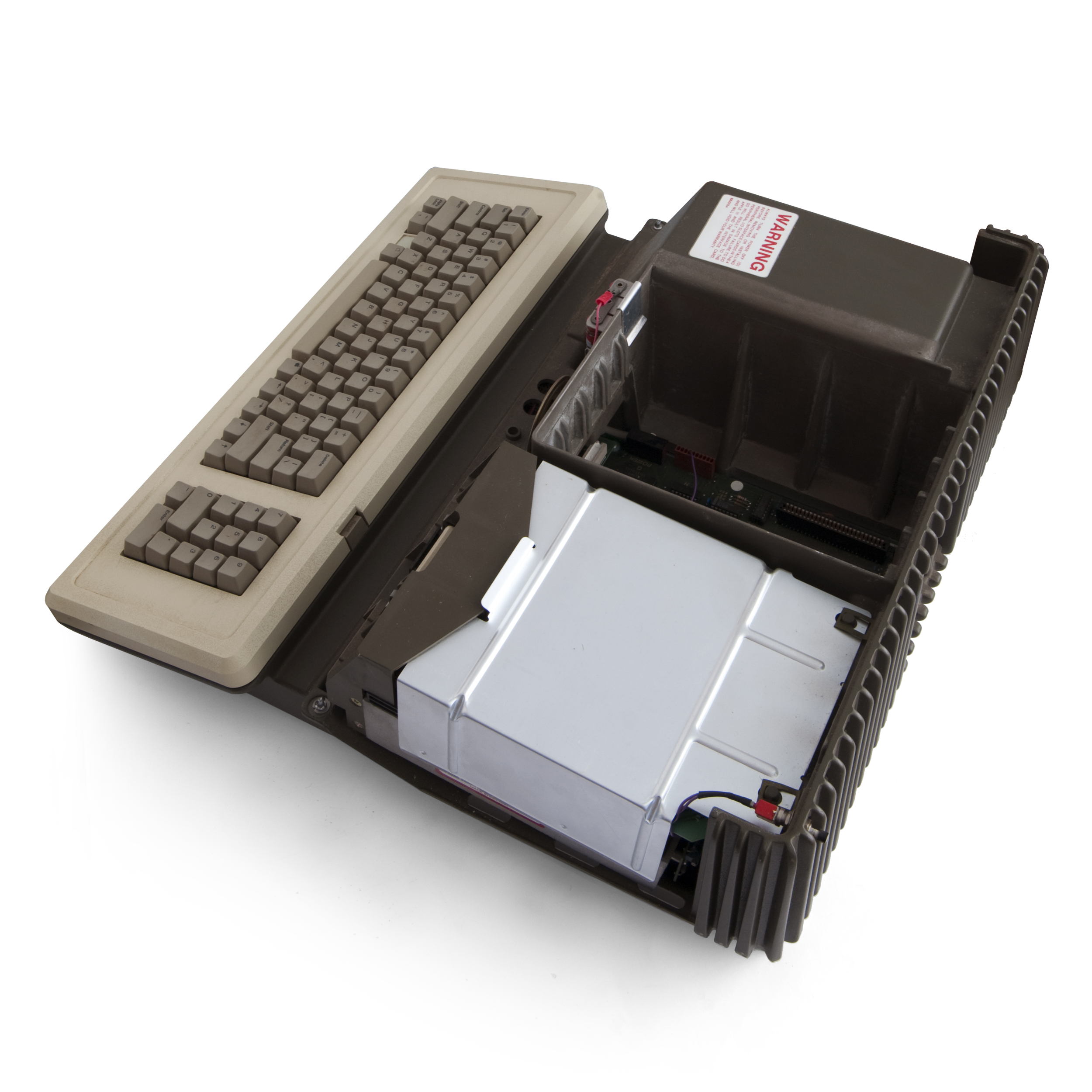 Apple III+ opened to display the case. The Apple III+ used a cast-aluminum case design.